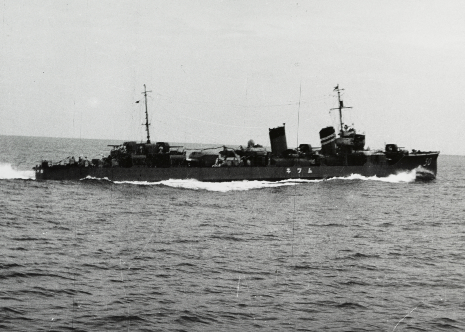 Imperial Japanese Navy destroyer Mutsuki. This pre-1945 image is believed to be copyright-free, as it is a Japanese photograph older than 50 years. If copyright exists in this image, use here is asserted to be fair use. Found at: [1] According to Japanese Copyright Law the copyright on this work has expired and is as such public domain. According to articles 51 and 57 of the copyright laws of Japan, under the jurisdiction of the Government of Japan works enter the public domain 50 years after the death of the creator (there being multiple creators, the creator who dies last) or 50 years after publication for anonymous or pseudonymous authors or for works whose copyright holder is an organization. Note: Use PD-Japan-oldphoto for photos published before December 31, 1956, and PD-Japan-film for films produced prior to 1953.